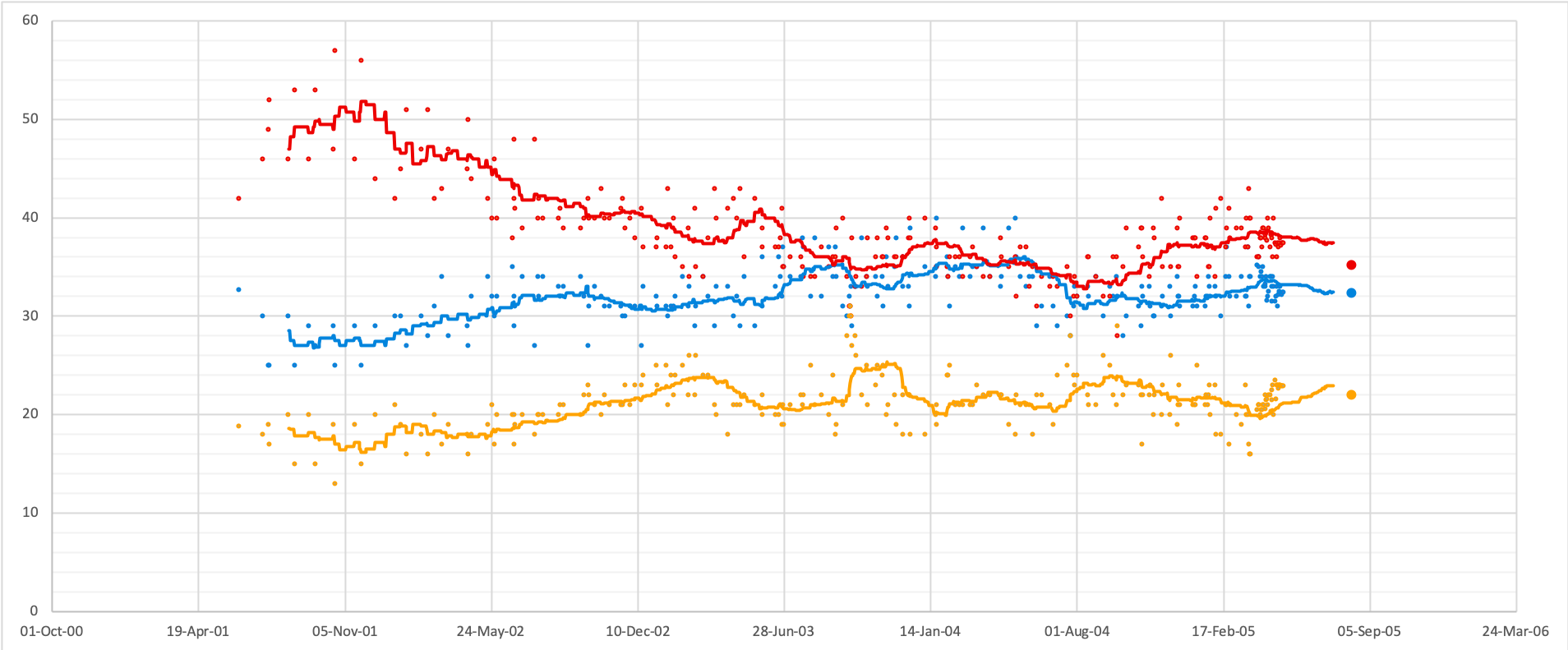 Red: Labour, blue: Conservative, amber: Liberal Democrat